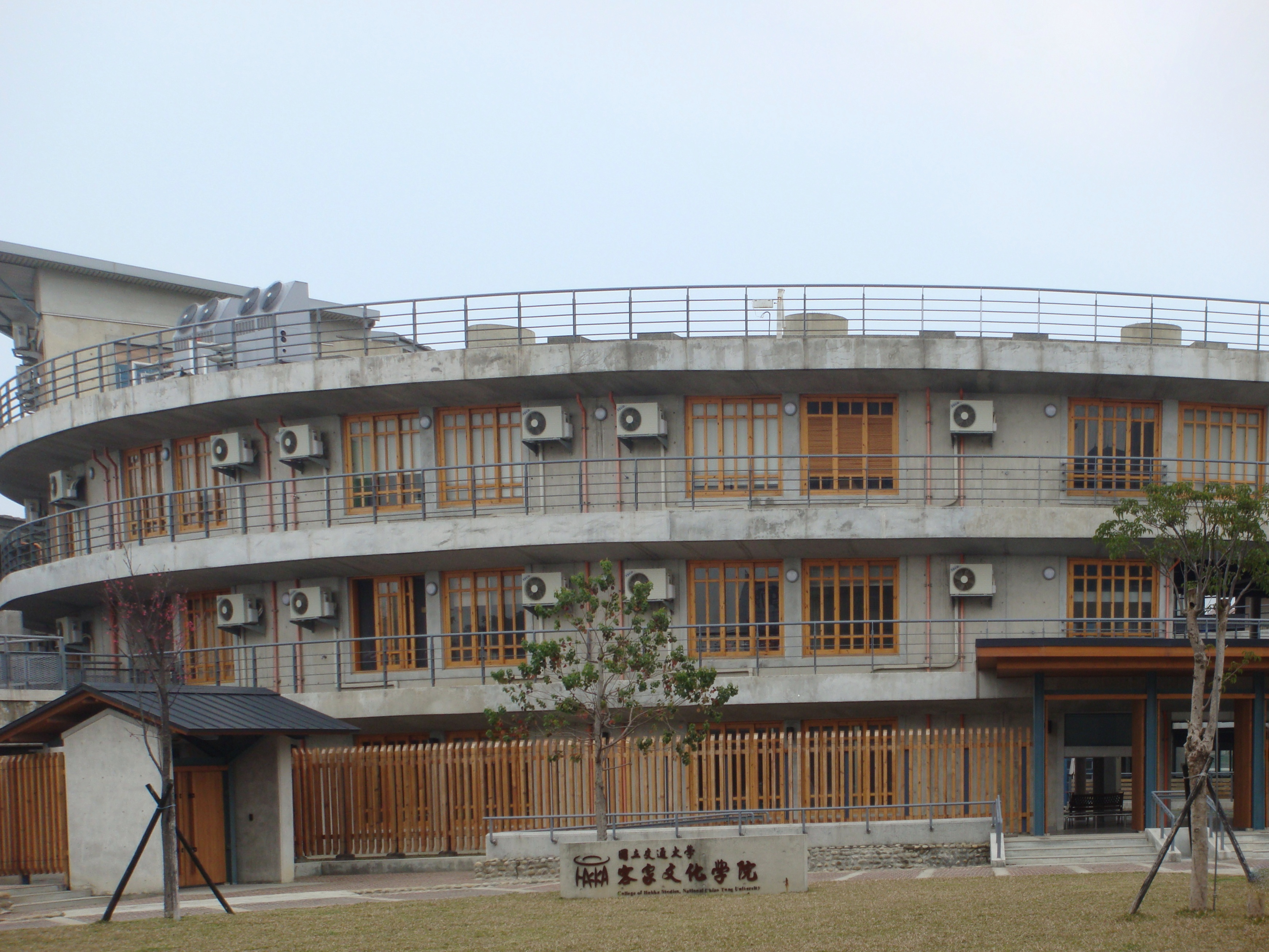 NCTU-Chibei College of HAKKA Studies:GATE 中文（台灣）: 國立交通大學竹北校區客家學院:大門